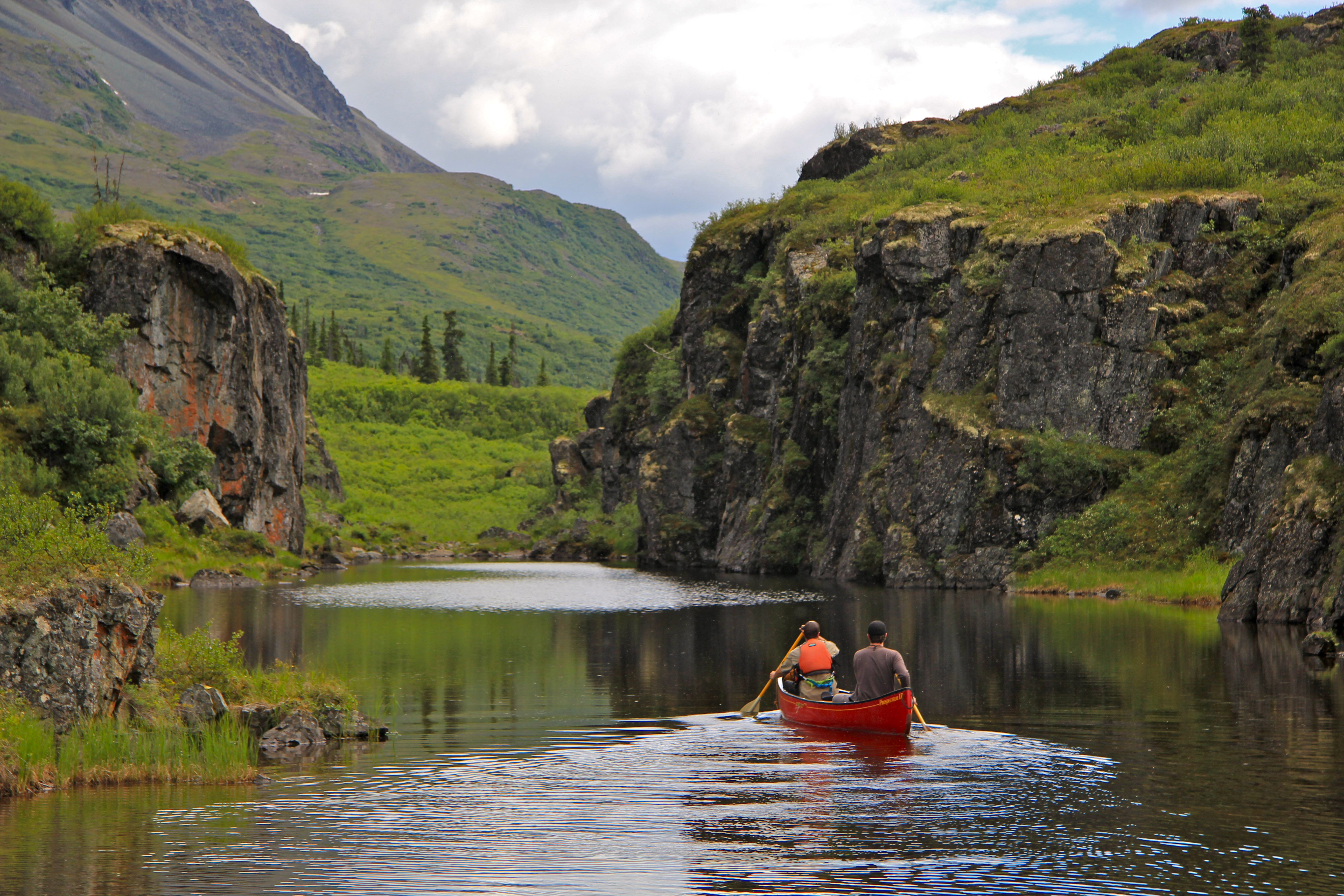 Not many rivers in the world flow into and through mountain ranges instead of away from them. For at least 10,000 years, the river today known as the Delta River has defied logic. Originating in the Tangle Lakes south of the Alaska Range – among the world’s highest mountain ranges – the 90-mile Delta River flows north into and through these mountains in a glacially carved corridor. If prehistory is your passion, the southern stretch of the Delta Wild and Scenic Corridor is within the Tangle Lakes Archaeological District. With more than 600 archaeology sites, this district is one of the densest concentrations of archaeological resources in the North American Subarctic. Part of the BLM’s National Land Conservation System, the Delta Wild and Scenic River is a bucket list destination - a jewel in the rough. Shimmering with Arctic grayling, with bountiful wildlife such as moose, caribou, beaver, fox, eagles and tundra swans, the river offers legendary float trips, camping, fishing and more. Visit the Delta River, a river that defies logic, and find your adventure. Photo by Jeremy Matlock